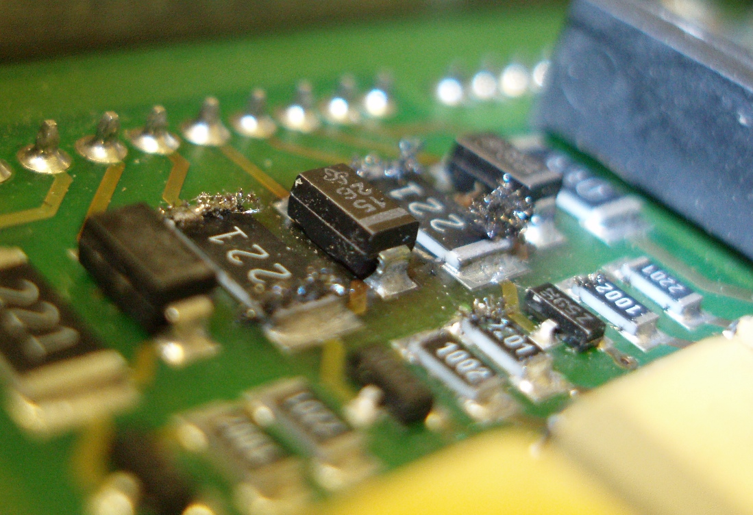 Silver Sulfide Whiskers growing out of surface-mount resistors from a Moog DS2000 servodrive.